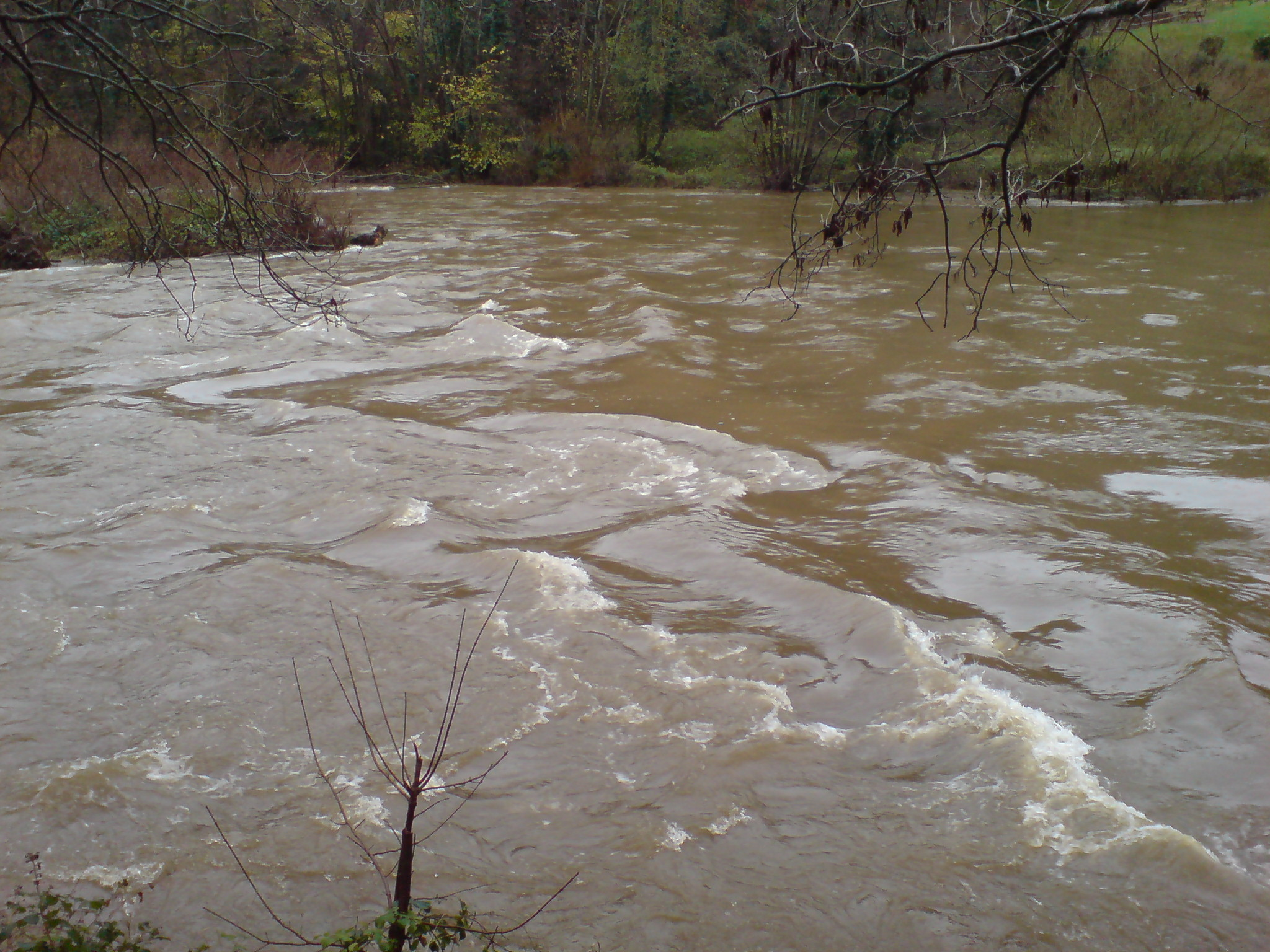 Symonds Yat Rapids Flooded, Author: Jamsta